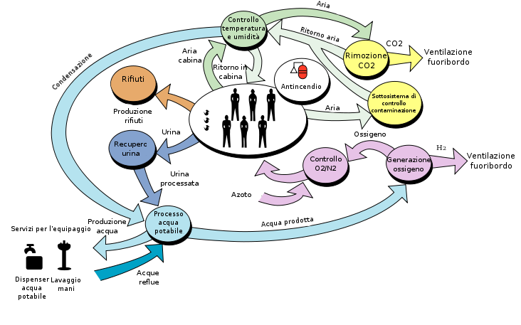 A flowchart diagram showing the interations between the different segments of the International Space Station's Environmental Control and Life Support System.